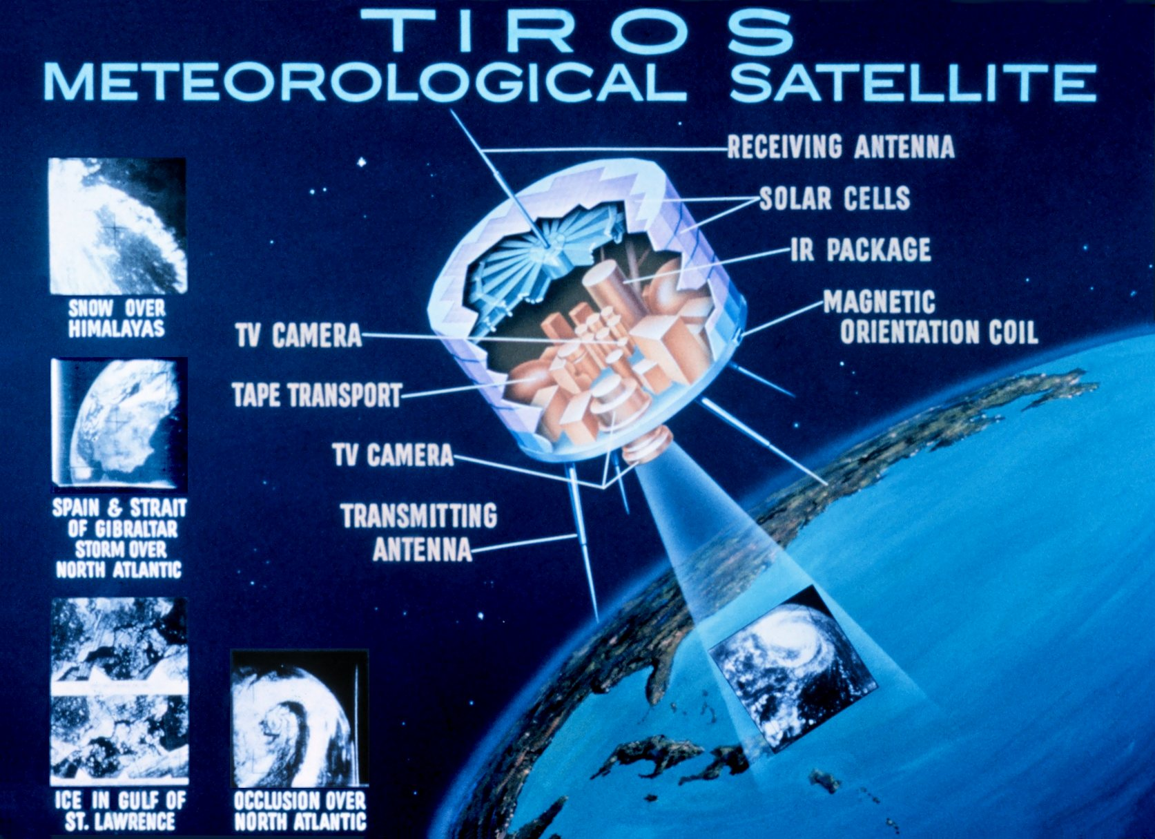 Graphic of TIROS meteorological satellite system showing components and photo products.